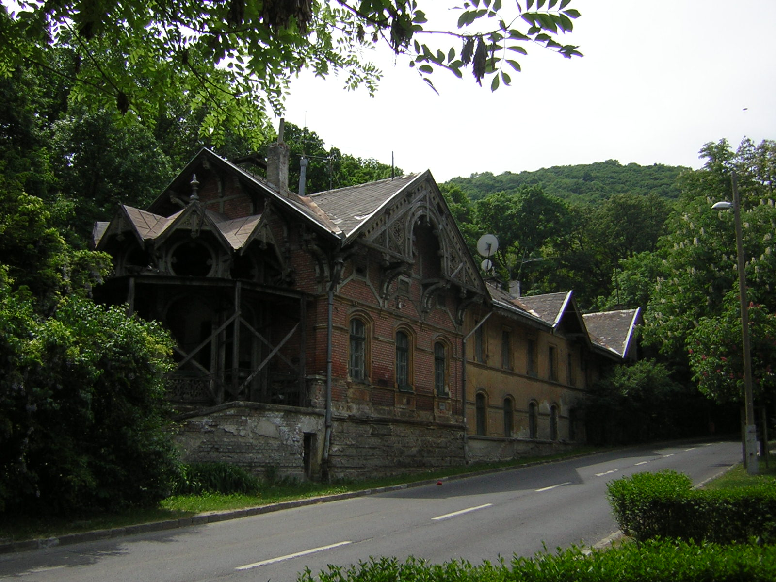 Old tramstation, Zugliget, Budapest, Hungary